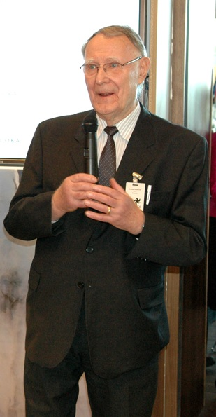 Ingvar Kamprad, founder of IKEA in Haparanda, Sweden at the Midnight Ministerial Meet.